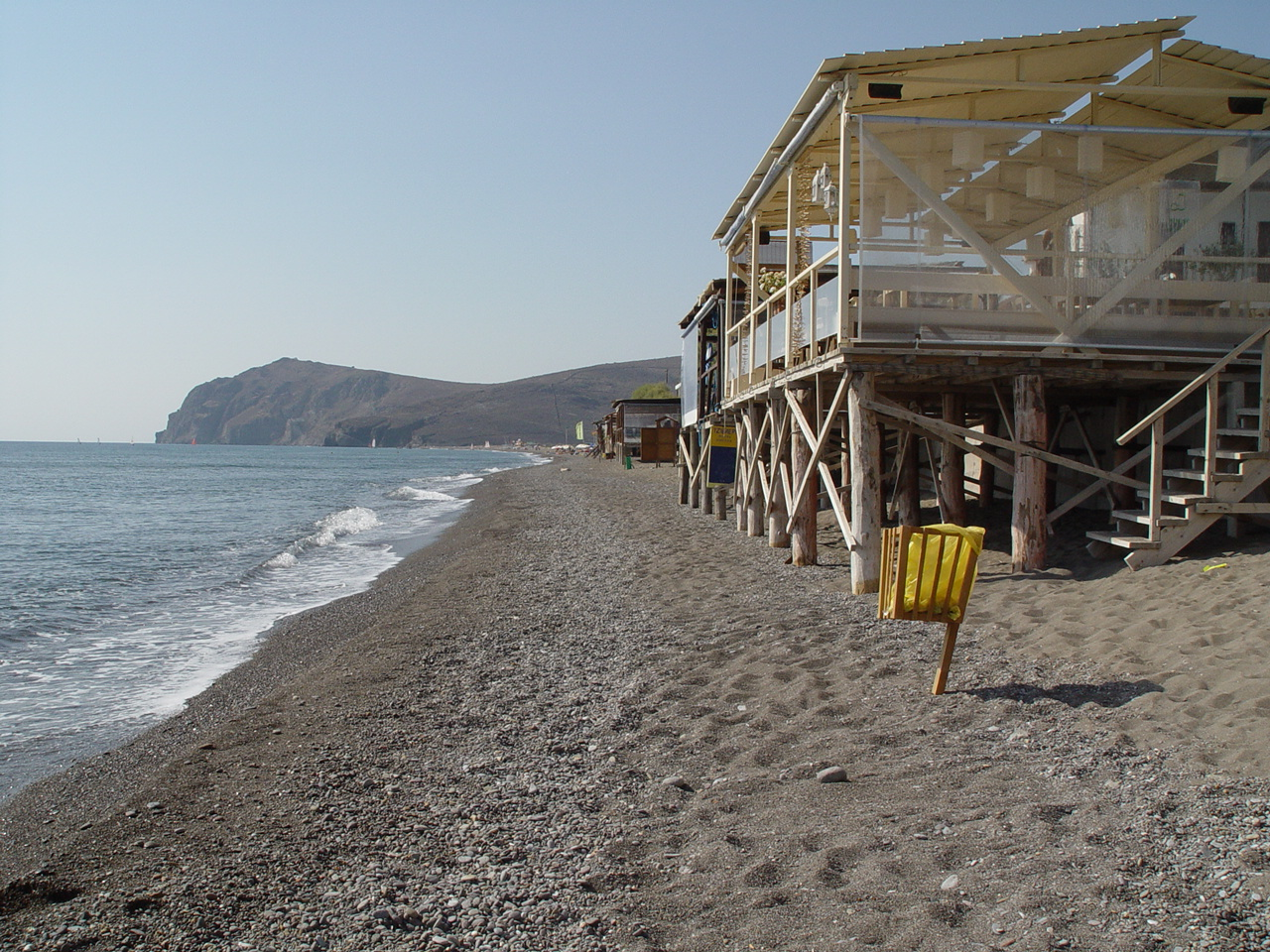 View from Skala, Eresos, Lesvos, Greece